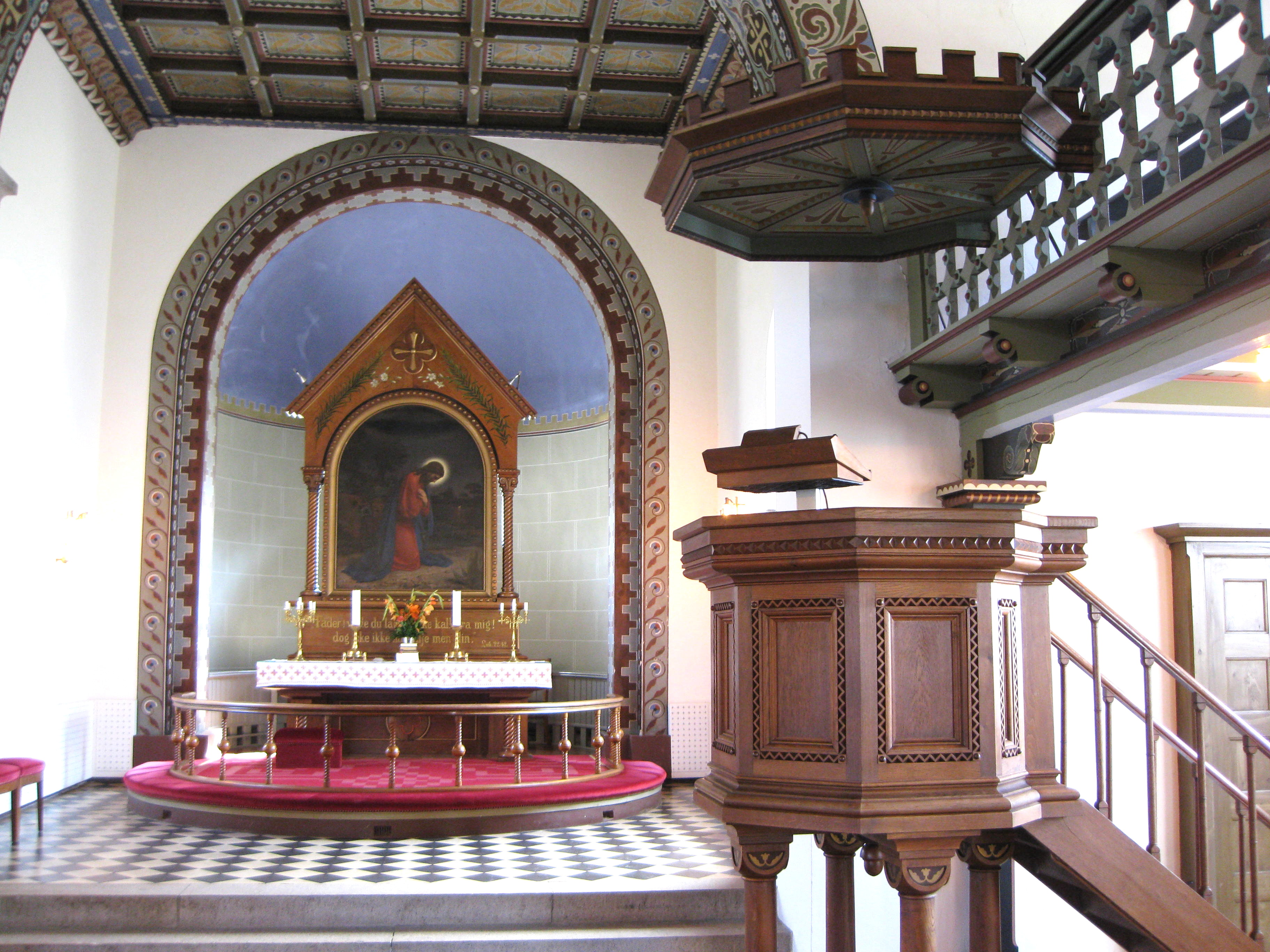 Inside of the church "Vestermarie Kirke" in the small town "Vestermarie". The town is located on the island Bornholm in east Denmark.